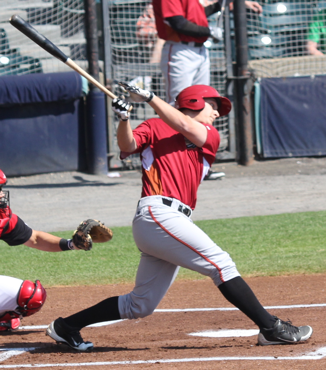 4/24/13 Alex Dickerson at bat.